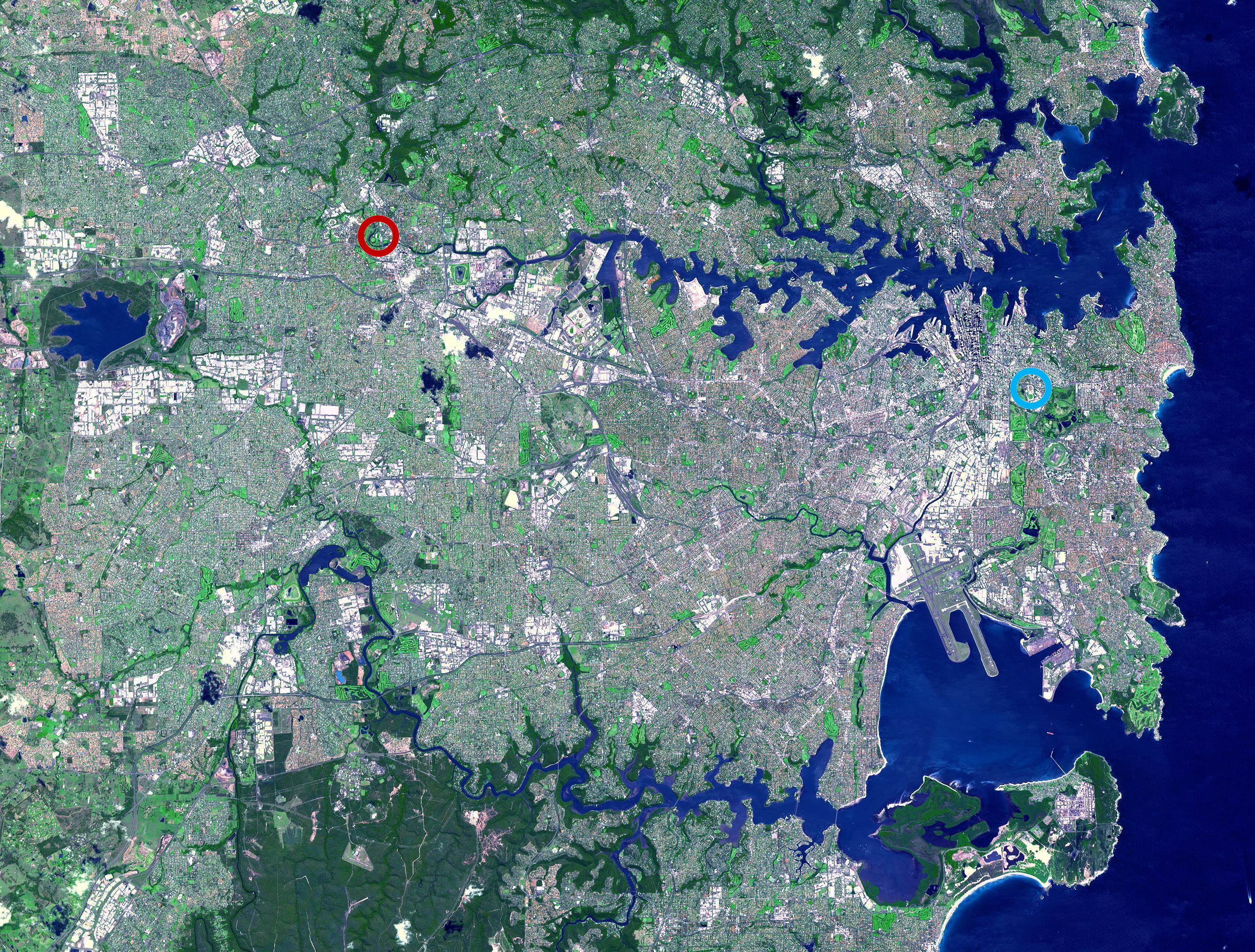 Satellite image showing relative locations of Wanderers (red) and Sydney (white) football stadia, Sydney